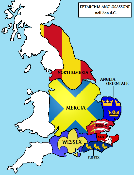 Map of Anglo-Saxon Heptarchy